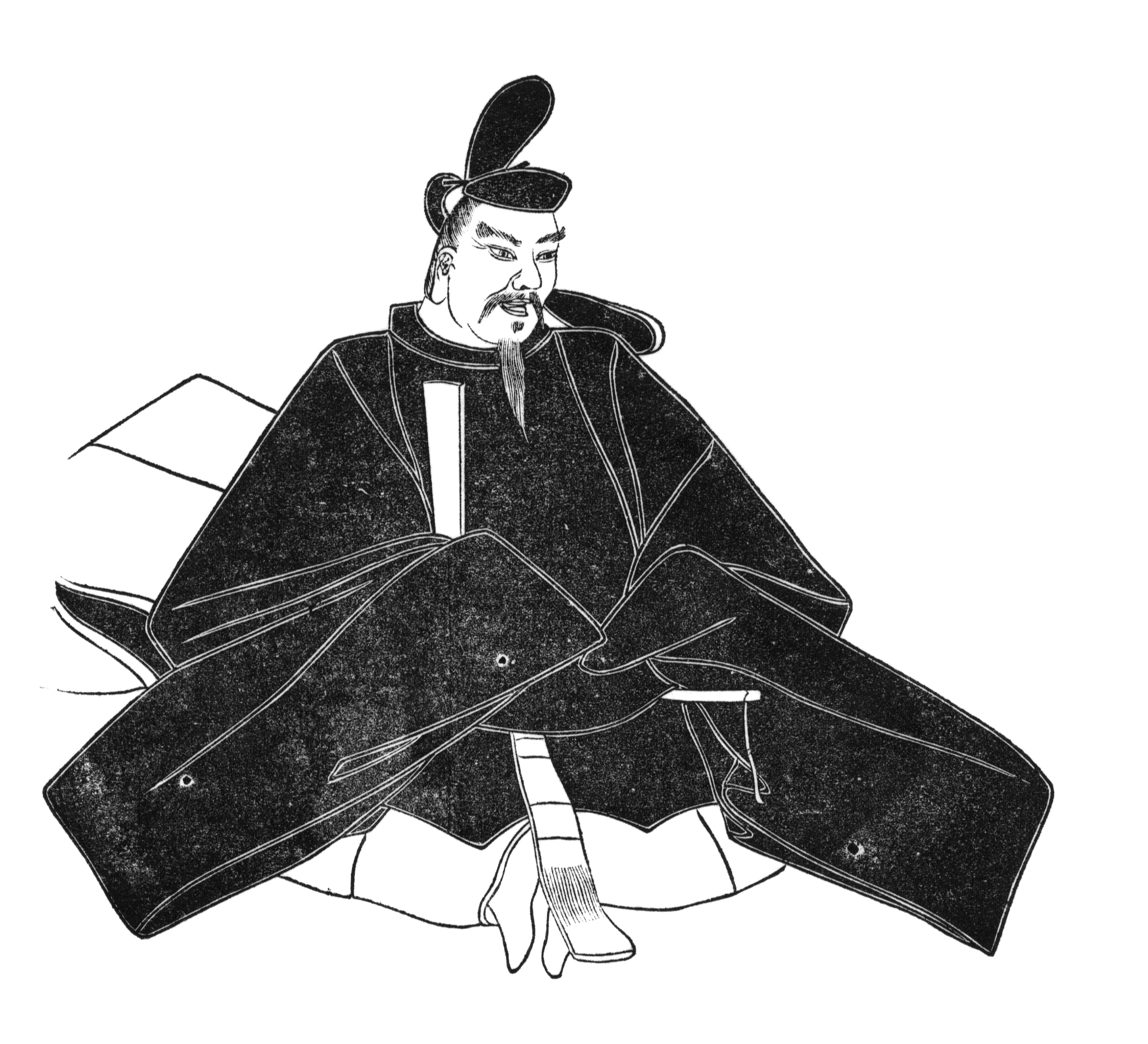 Portrait of Ono no Takamura